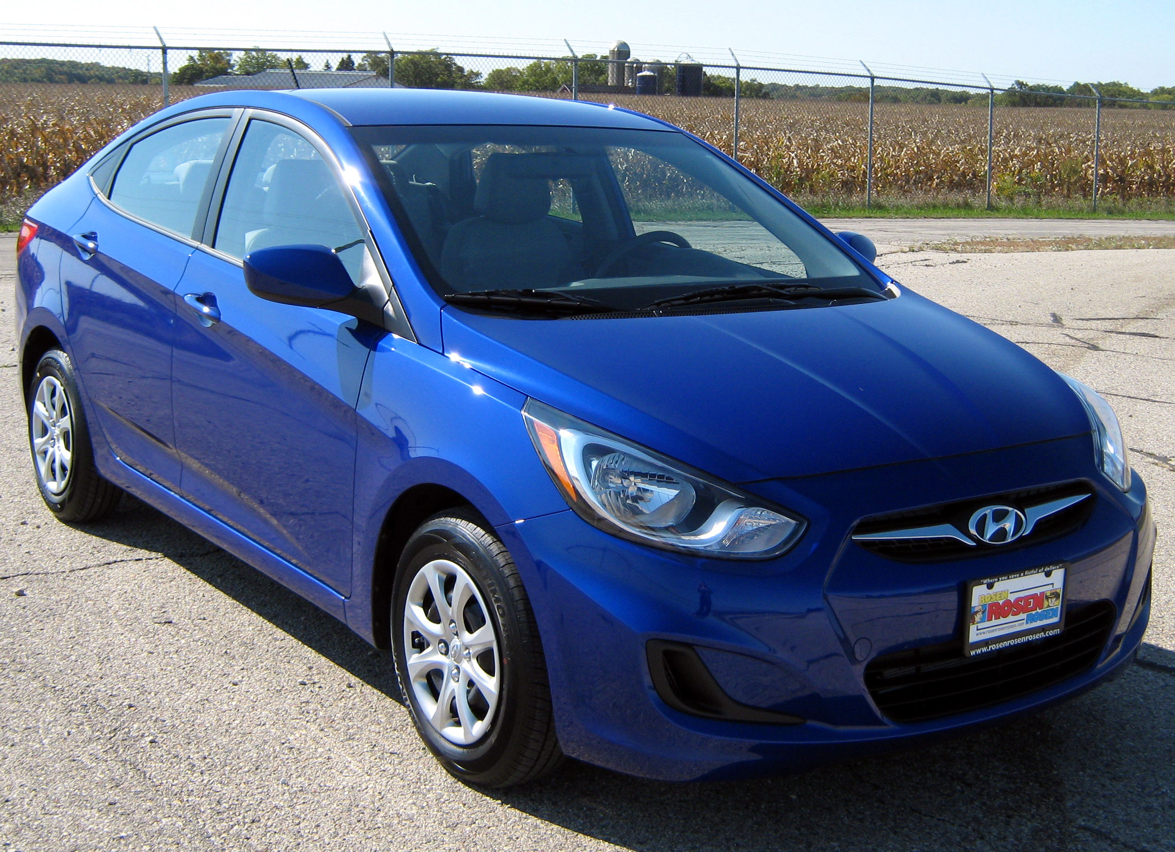 2012 Hyundai Accent photographed in USA.